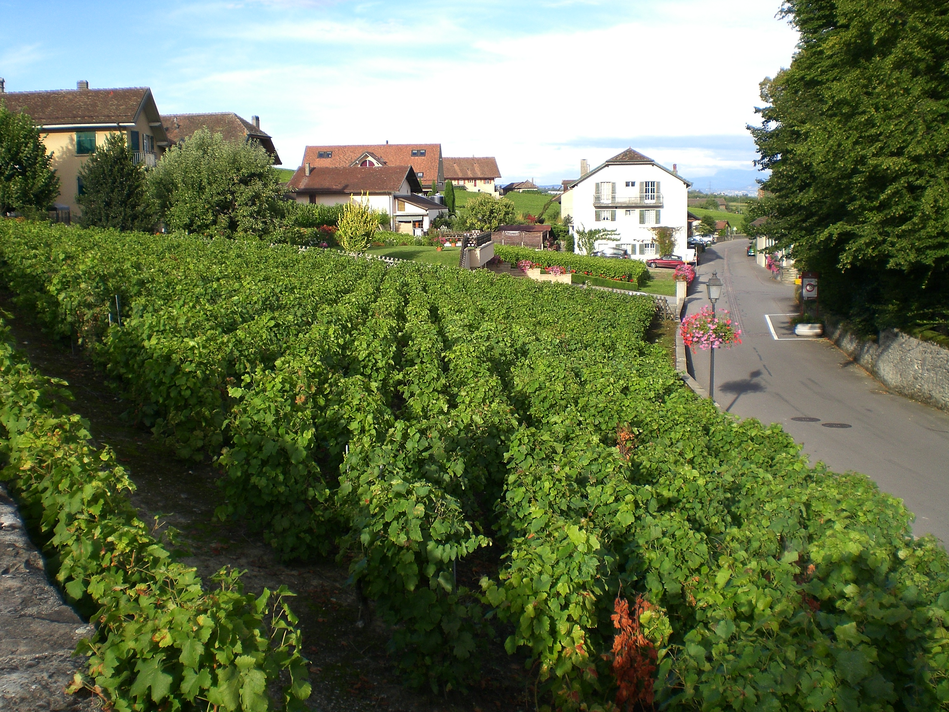 View of Féchy village